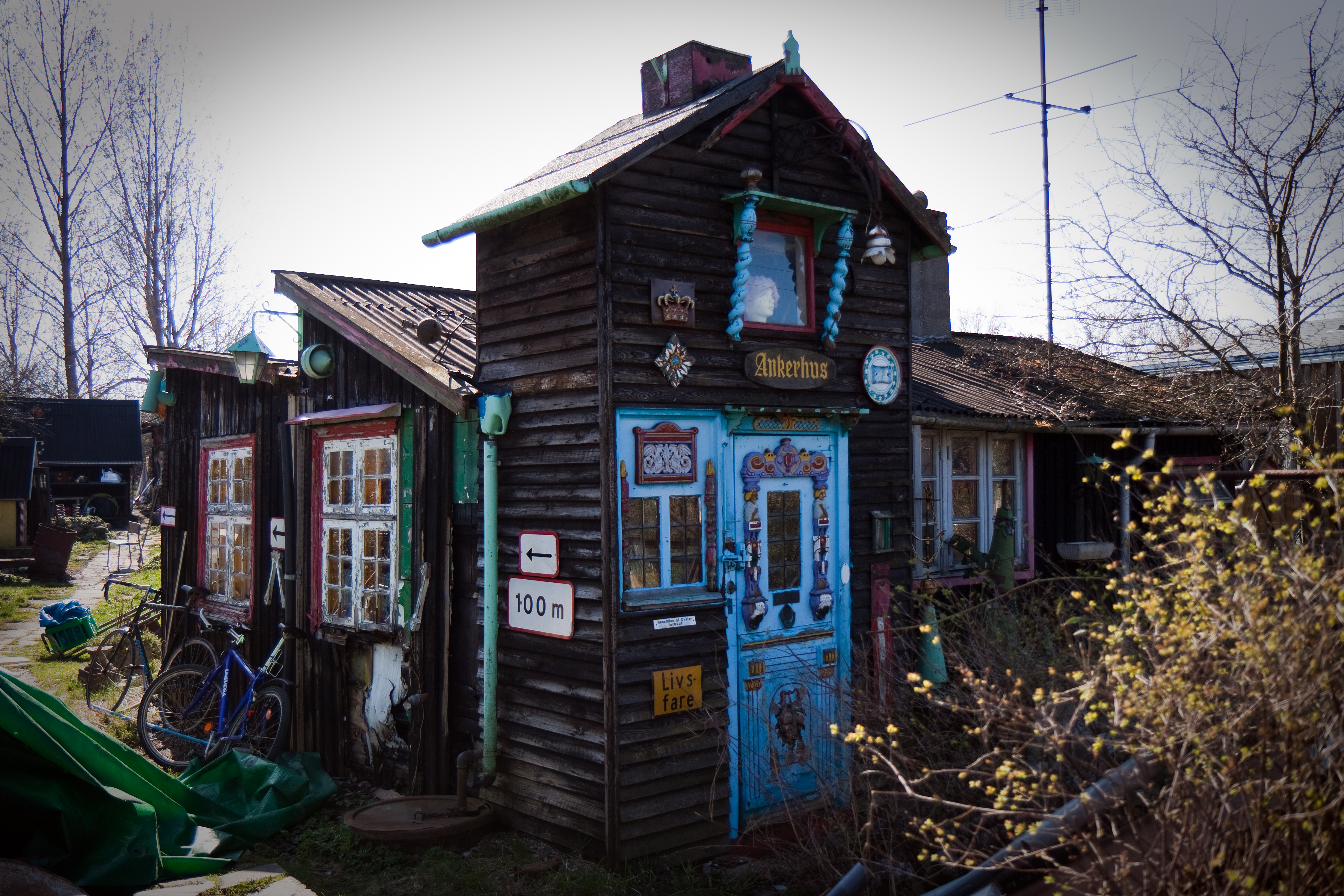 Ankerhus in Nokkens haveforening Lille Nok in Copenhagen, Denmark